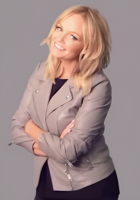 Emma Bunton for Argos in 2014.